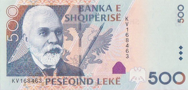 500 Lekë of Albania in 2015 Obverse